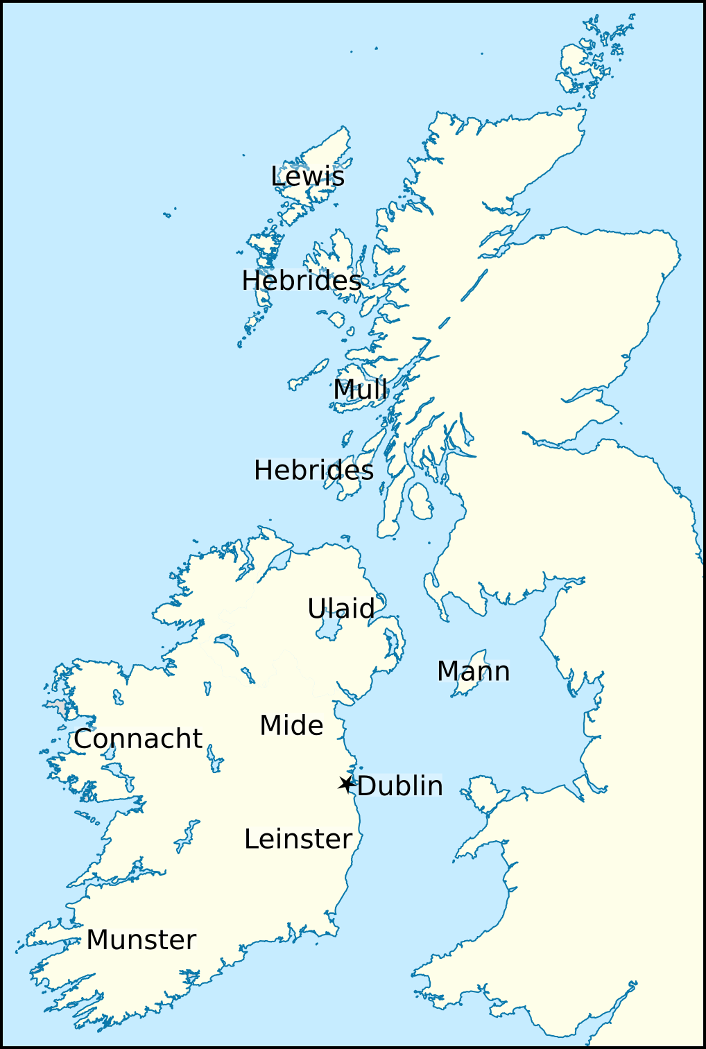 Map illustrating some places named in the English Wikipedia article Lǫgmaðr Guðrøðarson.